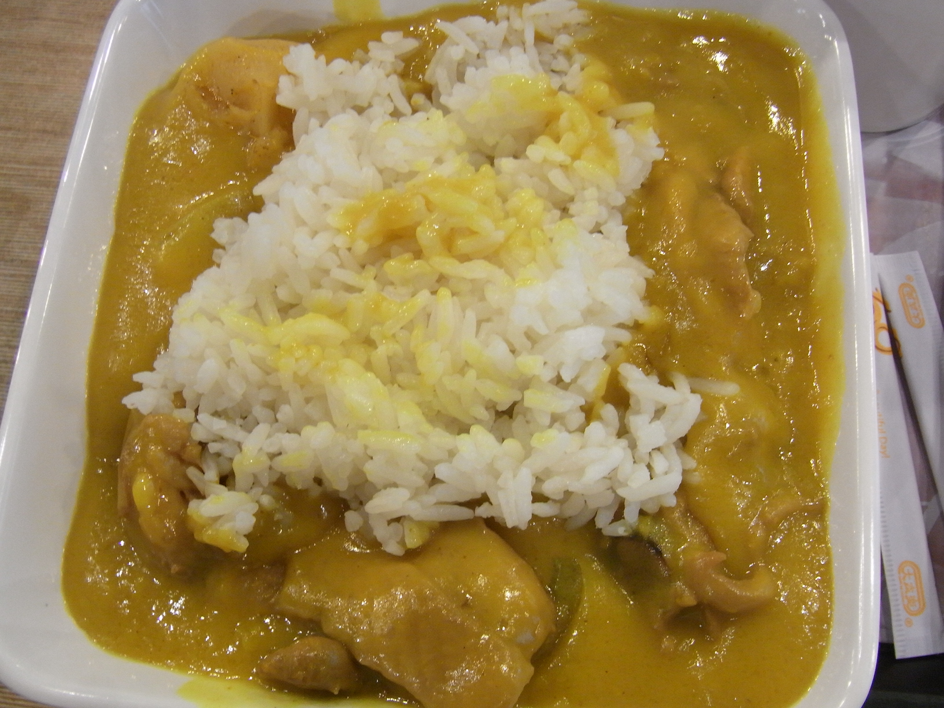 大家樂, Cafe de Coral, Hong Kong